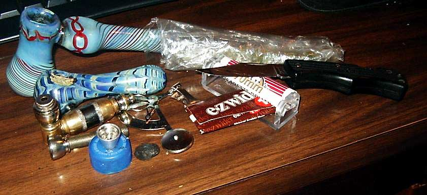 I am the author. Contents of picture : A glass bubbler, a glass pipe, a metal chamber bowl with a cap, a metal bong slider, a gravity-bong cap made from a 2-liter cap, a screen for a bowlhead, a postal scale, rolling papers and a rolling machine, a knife for scraping resin, a bag of cannabis.